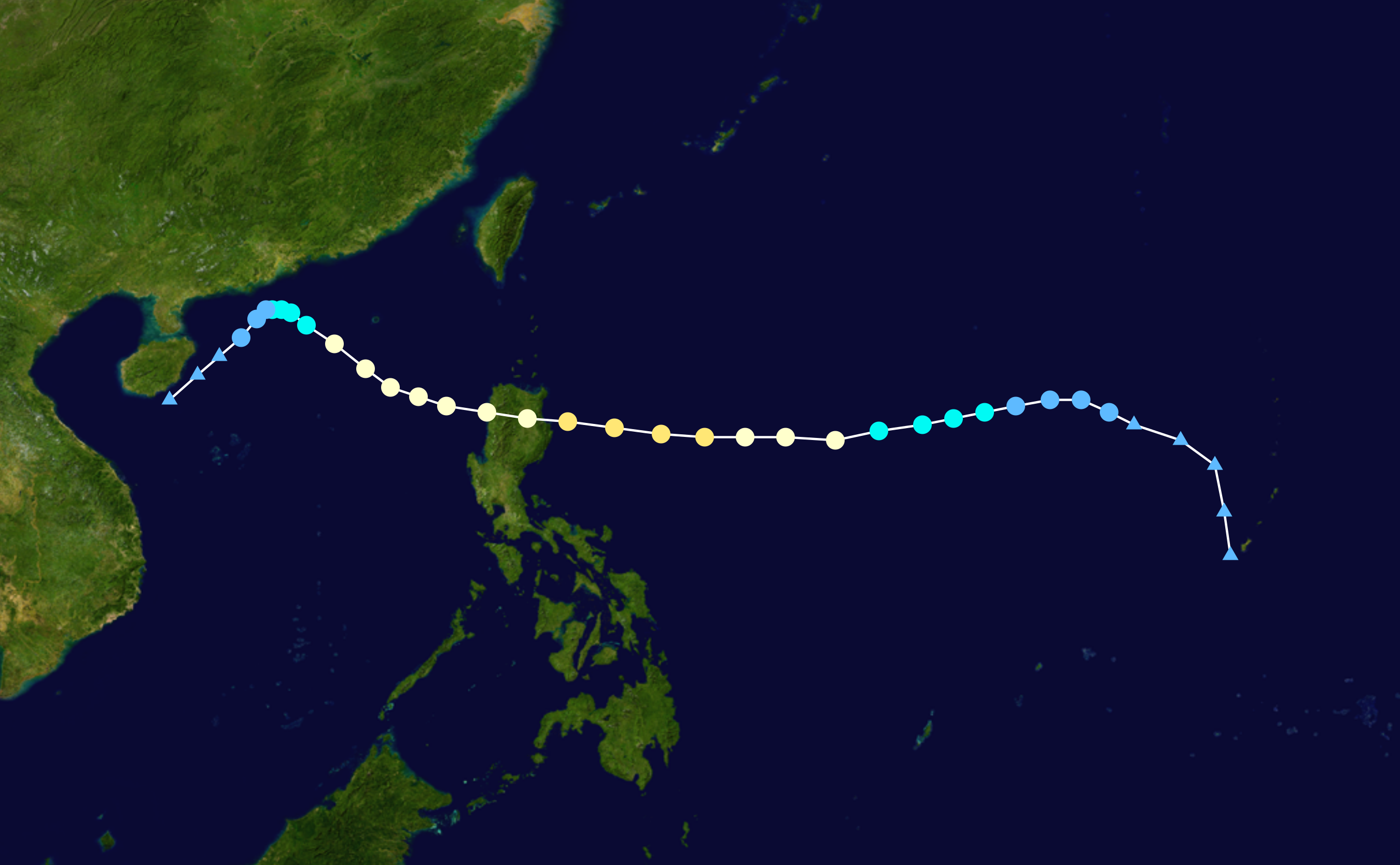 Typhoon Elaine Pacific 1974 track. Uses the color scheme from the Saffir-Simpson Hurricane Scale.